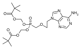 Adefovir dipivoxil structure. The image was drawn using BKchem, and GIMP under Debian GNU/Linux by user Mykhal.